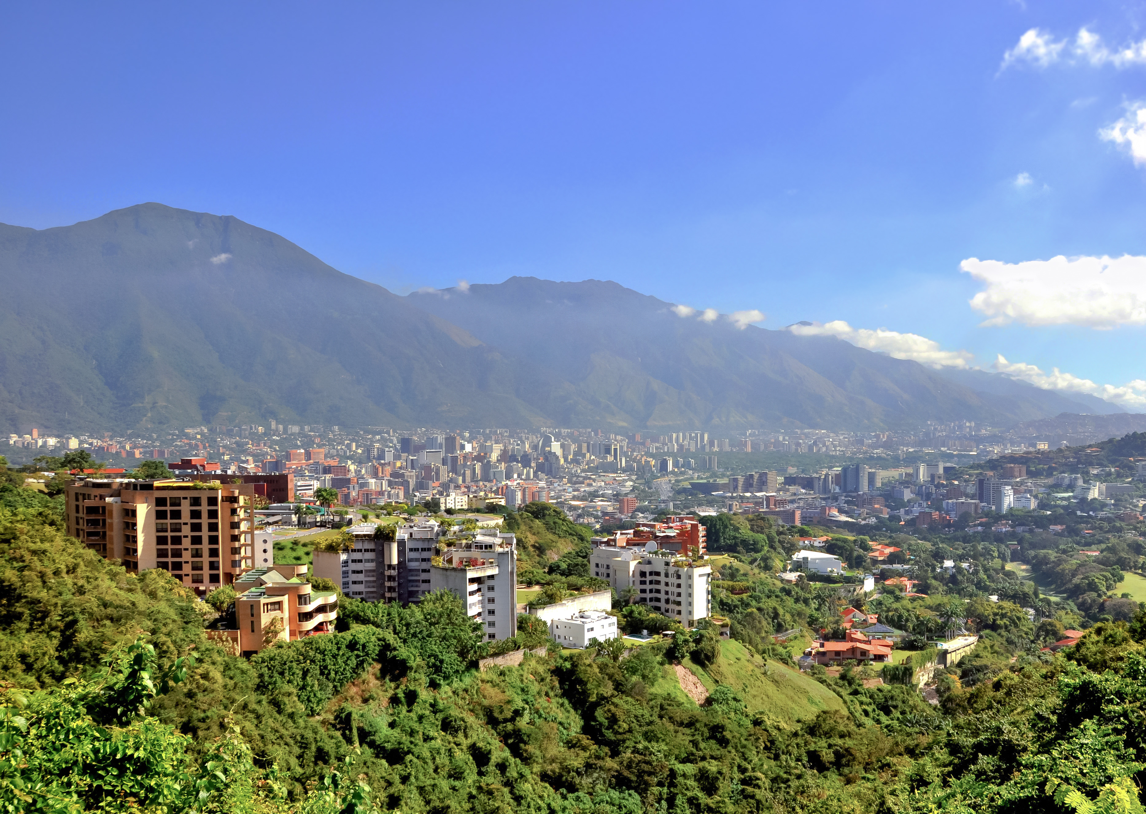 View from Valle Arriba Belvedere in Caracas city, Venezuela.